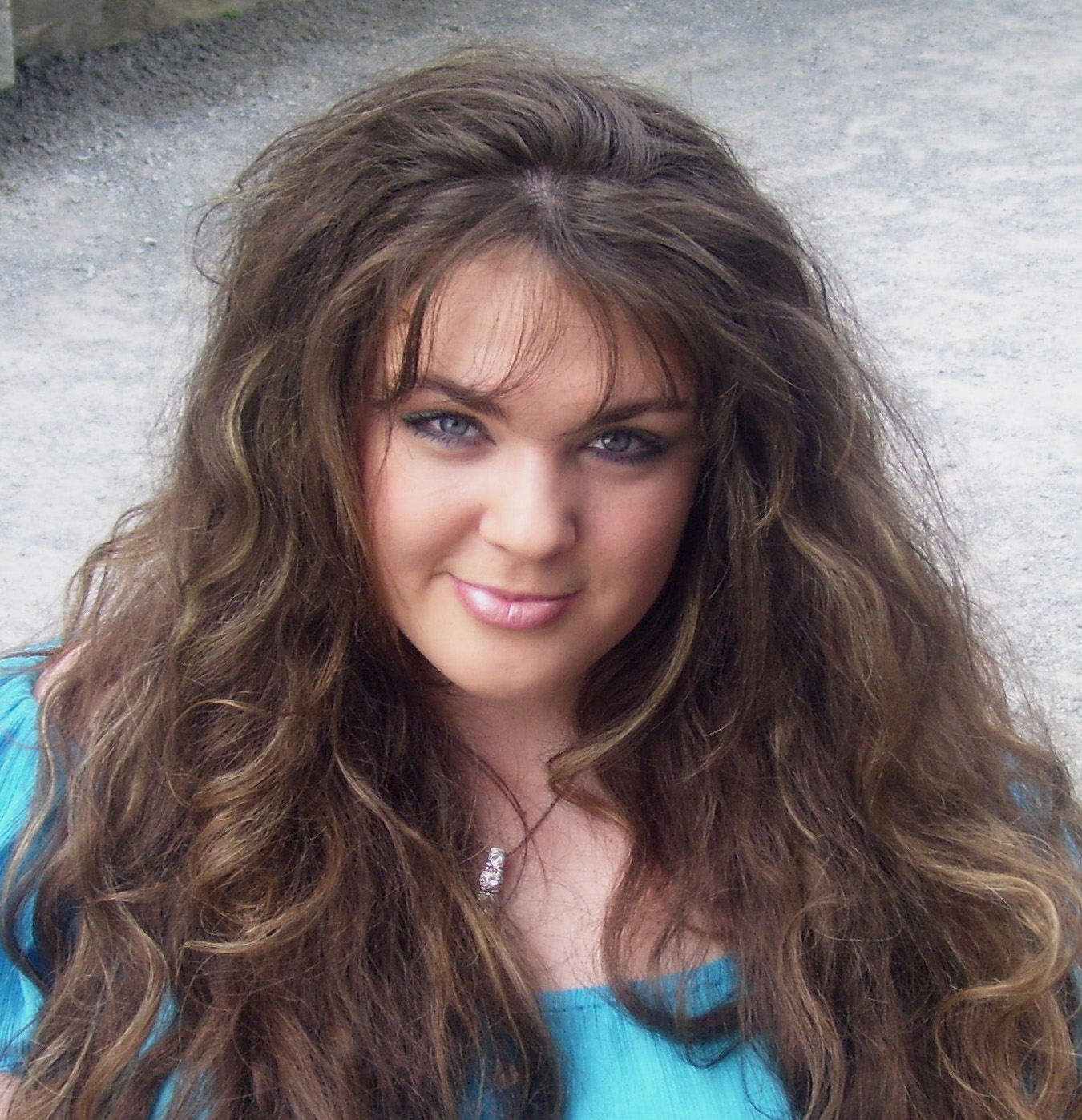 Irish singer-songwriter and folk vocalist Annmarie O'Riordan